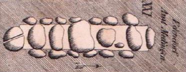 Megalithic tomb near Edendorf, Sprockhoff-No. 749